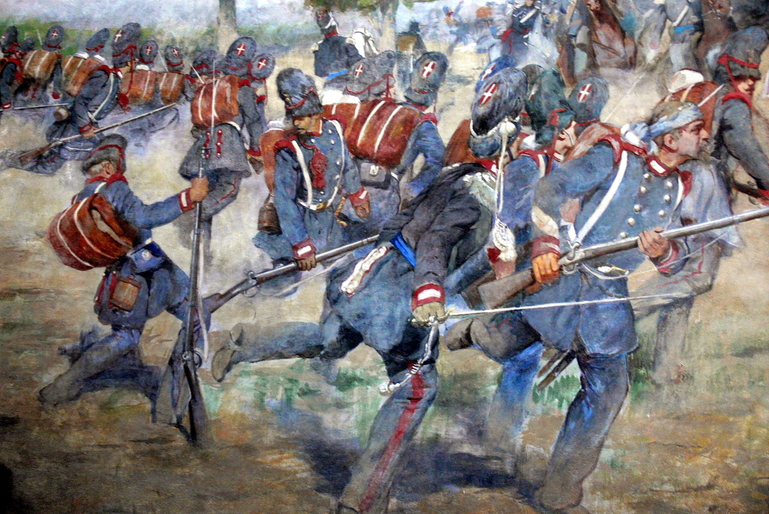 San Martino della Battaglia ( Italy ). Tower ( 1880 ) - Fresco showing the battle of Goito ( 1848 ) by Veronese di Stefano - detail.